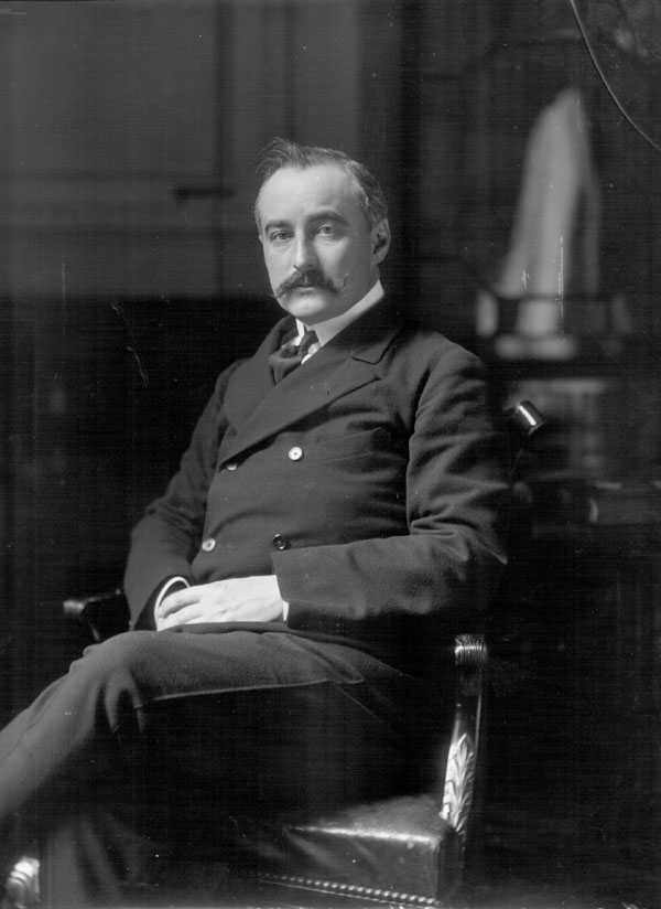 Count Albert Mensdorff-Pouilly-Dietrichstein (1861-1945), photographed 15 October 1906